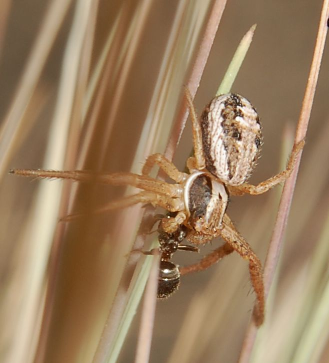 Xysticus ninnii, male. Berlin, Forst Jungfernheide